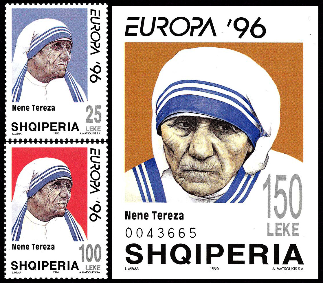 Postage stamps of Albania, 1996. Issue on the program EUROPA. Mother Teresa